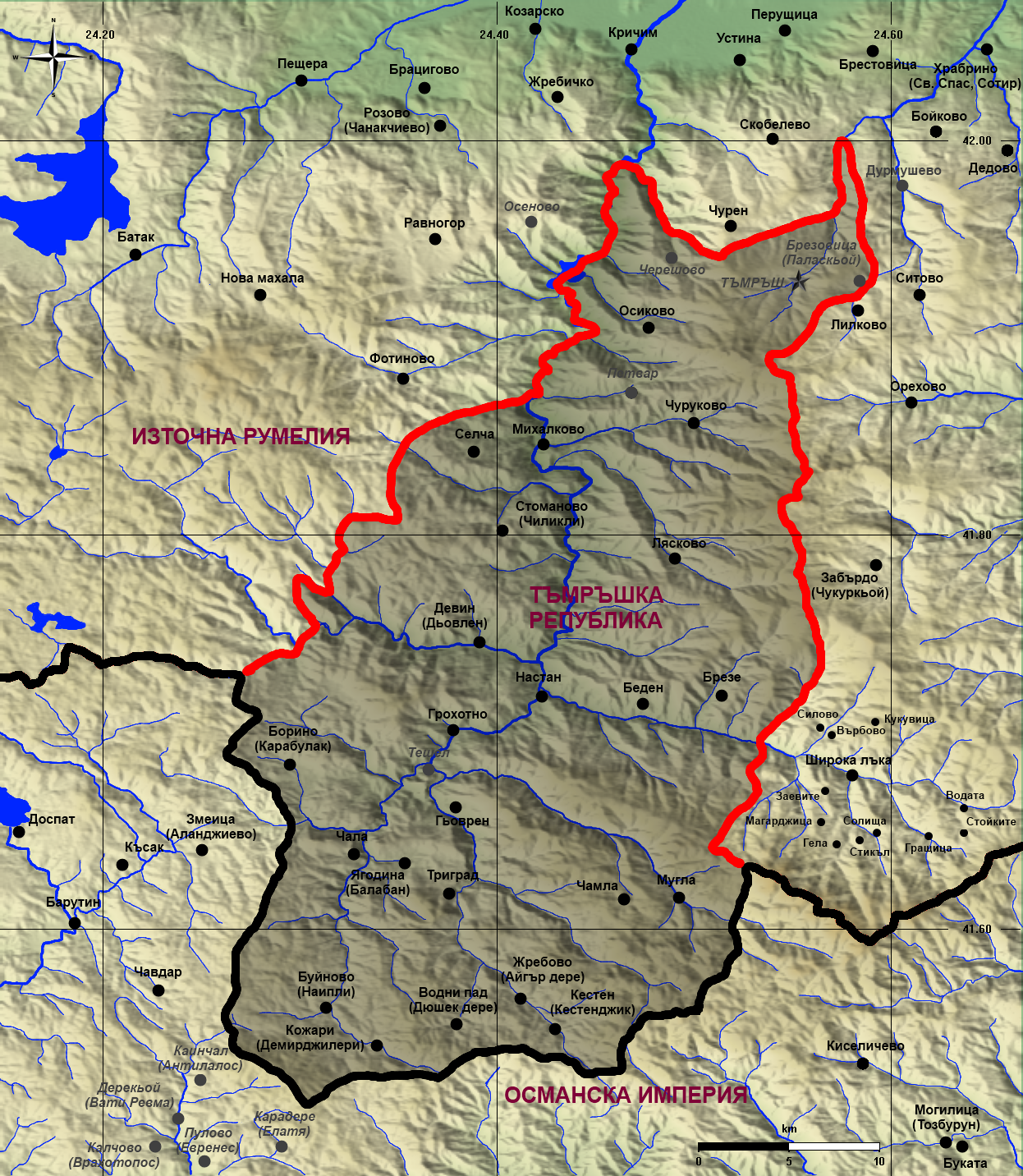 Map of the Republic of Tamrash (1878-1886). Sources: Topography: NASA SRTM Data (published in the public domain)[2] Demarcation line: Heath Lowry's 1899 Map of the Ottoman Empire Populated places: Belonging to the republic: Вълчев, Ангел (1973) Тъмраш, София: Издателство на Отечествения фронт, p. 342 OCLC: 749090779. Old names: Simovski, Todor (1999) Atlas Of The Inhabited Places Of The Aegean Macedonia, Ankara: Türk Tarih Kurumu ISBN: 975-16-1103-2.